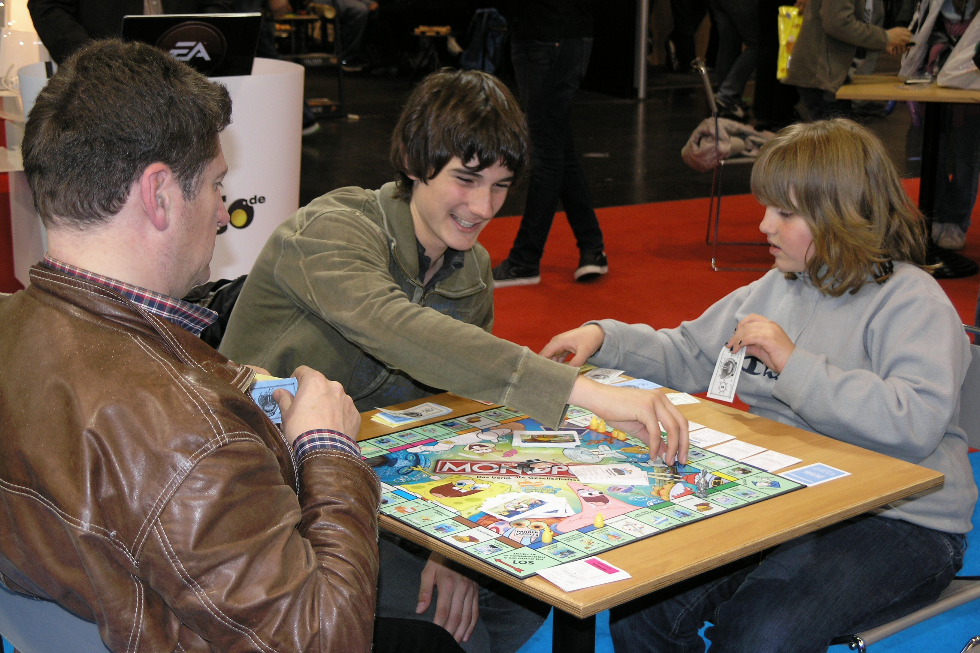 Personality rights warning Although this work is freely licensed or in the public domain, the person(s) shown may have rights that legally restrict certain re-uses unless those depicted consent to such uses. In these cases, a model release or other evidence of consent could protect you from infringement claims.